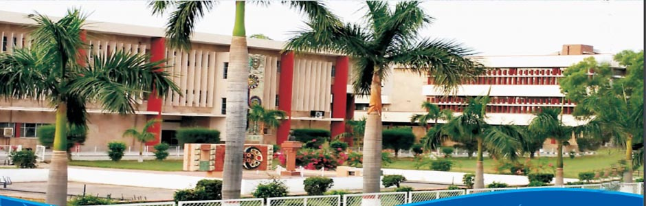 ccs hau building